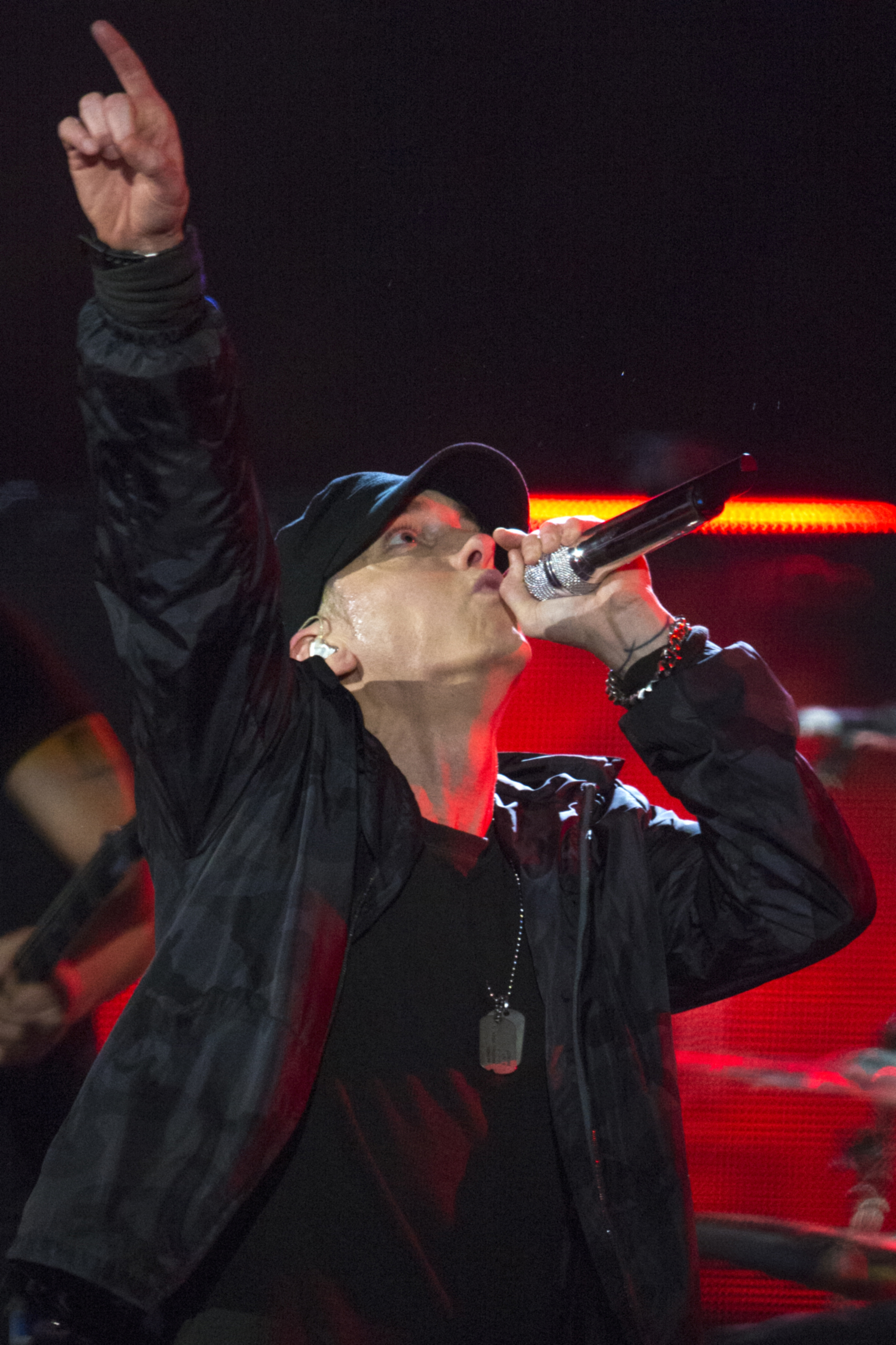 Eminem performs during The Concert for Valor in Washington, D.C. Nov. 11, 2014. DoD News photo by EJ Hersom